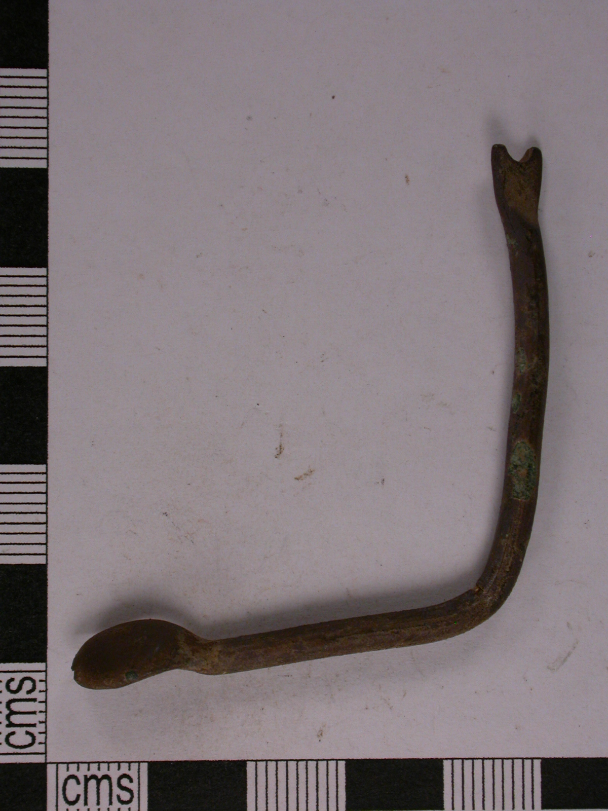 Cast copper alloy Roman toiletry implement, with an oval spoon bowl at one end, probably an ear scoop or ligula, and a pointed bifid terminal at the other end, which might have been used as a nail cleaner . The toiletry implement is now bent into a V-shape but would have originally been straight. Roman toiletry implements often have multiple functions, with a tool at each end of the copper alloy rod. Bailey (2008) illustrates a similar bronze probe with a bowl terminal on page 25, fig.C7.14, which is dated from the Roman period. Crummy (1983) illustrates a similar nail cleaner on page 58, fig.62, no.1869, which is dated from the 1st to the 2nd century AD, and a toilet spoon on page 60, fig.64, no.1900. See CORN-9C88B2 for a similar example that is dated from the Roman period.